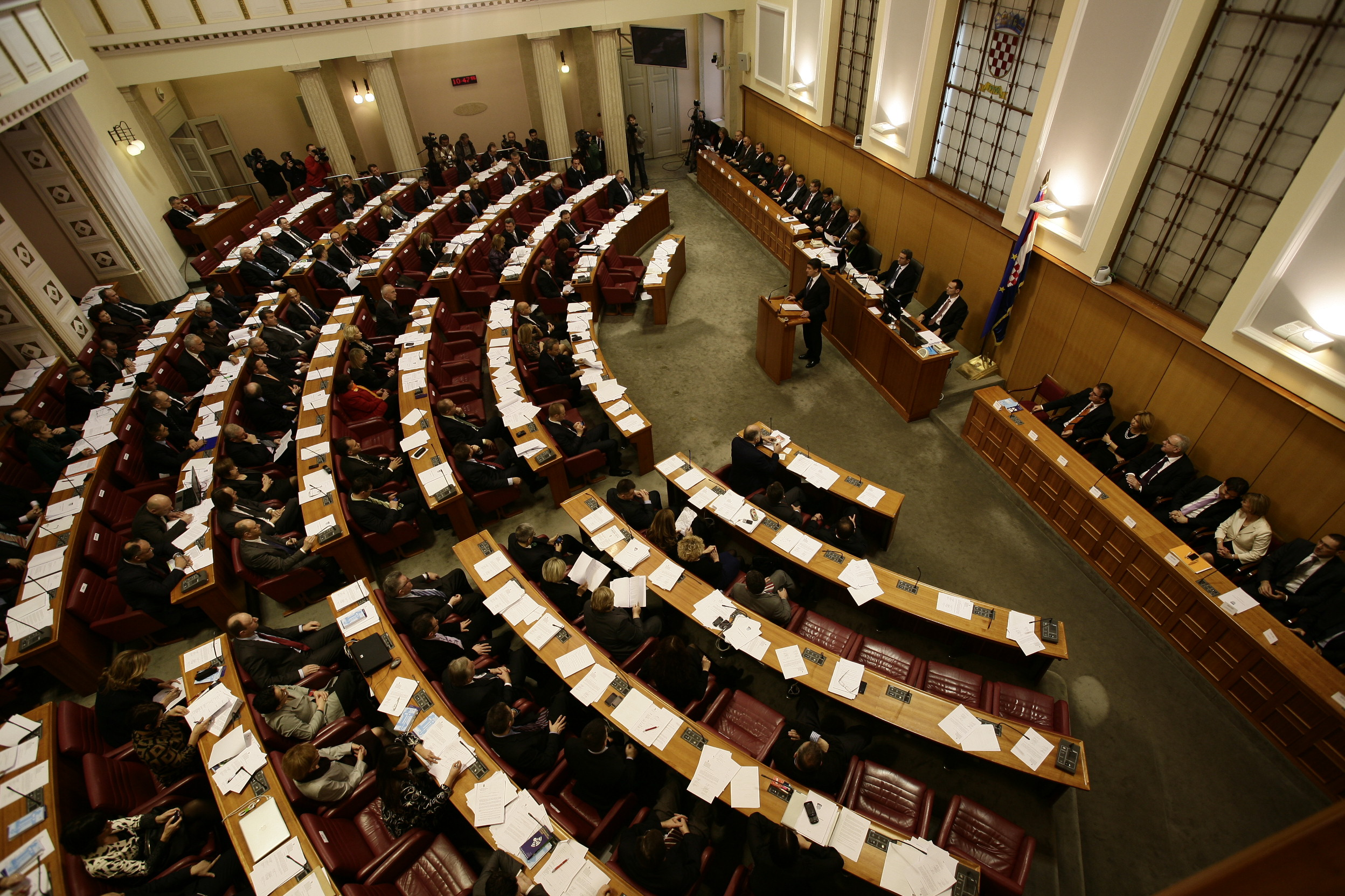 Confidence vote of the Croatian government.